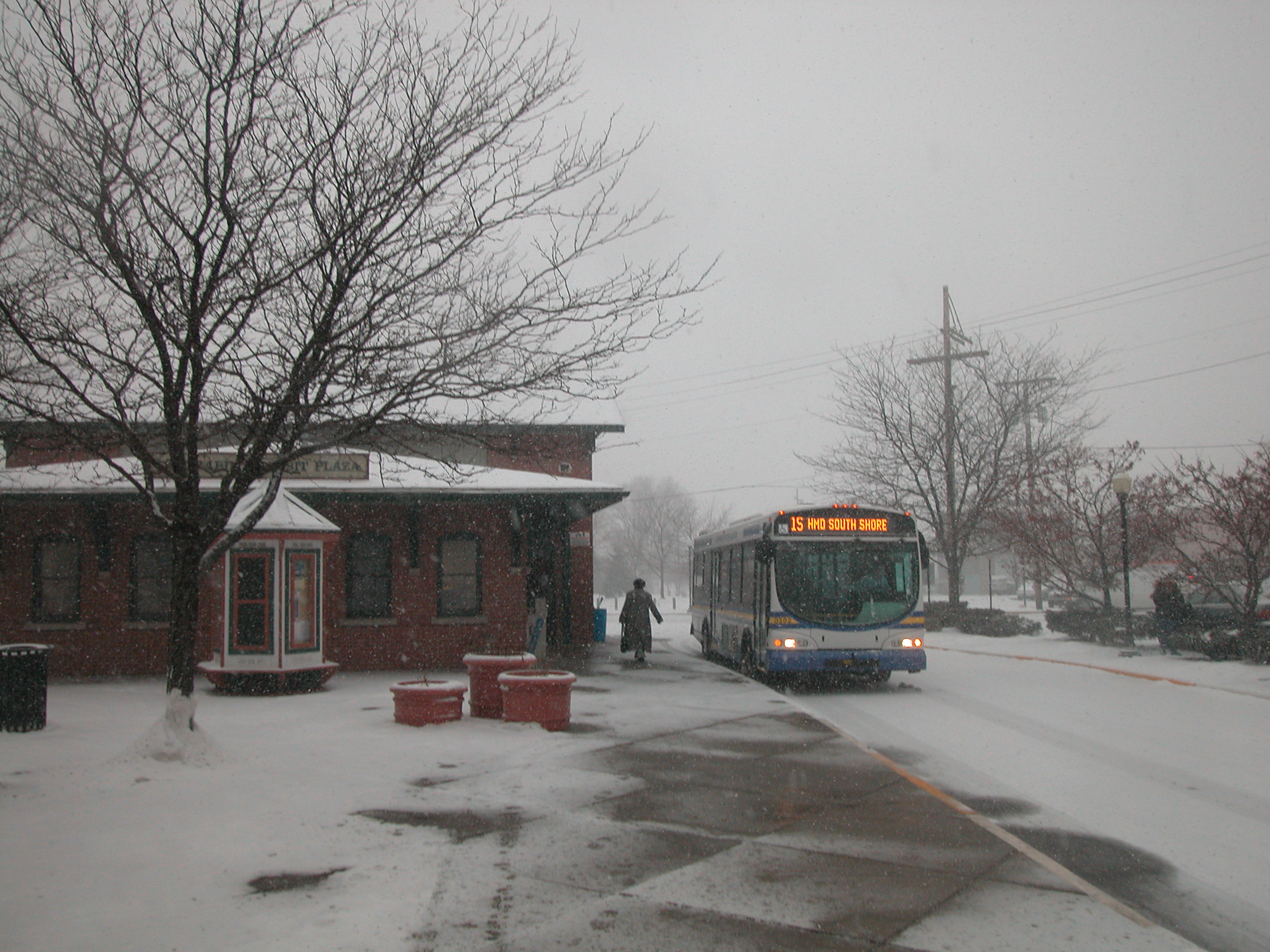 20051208 22 Hammond Transit Center